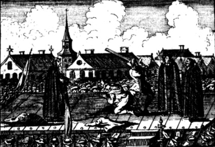 The execution of Otto Arnold von Paykull in Stockholm, 1707.